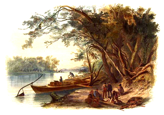 In November of 1833 the party in which Bodmer was travelling stopped to camp along the Missouri. Aquatint engraving with original hand coloring by Karl Bodmer 1833 – 1834. de: Rast der Mitglieder der deutschen Expedition nach Nordamerika am Fluss Missouri im Jahr 1833. In den Käfigen im Boot befinden sich junge Bären für die Rückreise nach Deutschland. Kupferstich handkoloriert von Karl Bodmer.